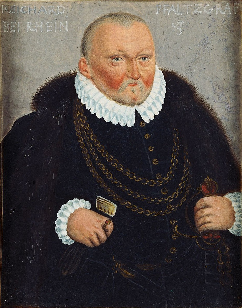 Richard of Pfalz-Simmern by the Brunswick-Lüneburg Court Miniaturist